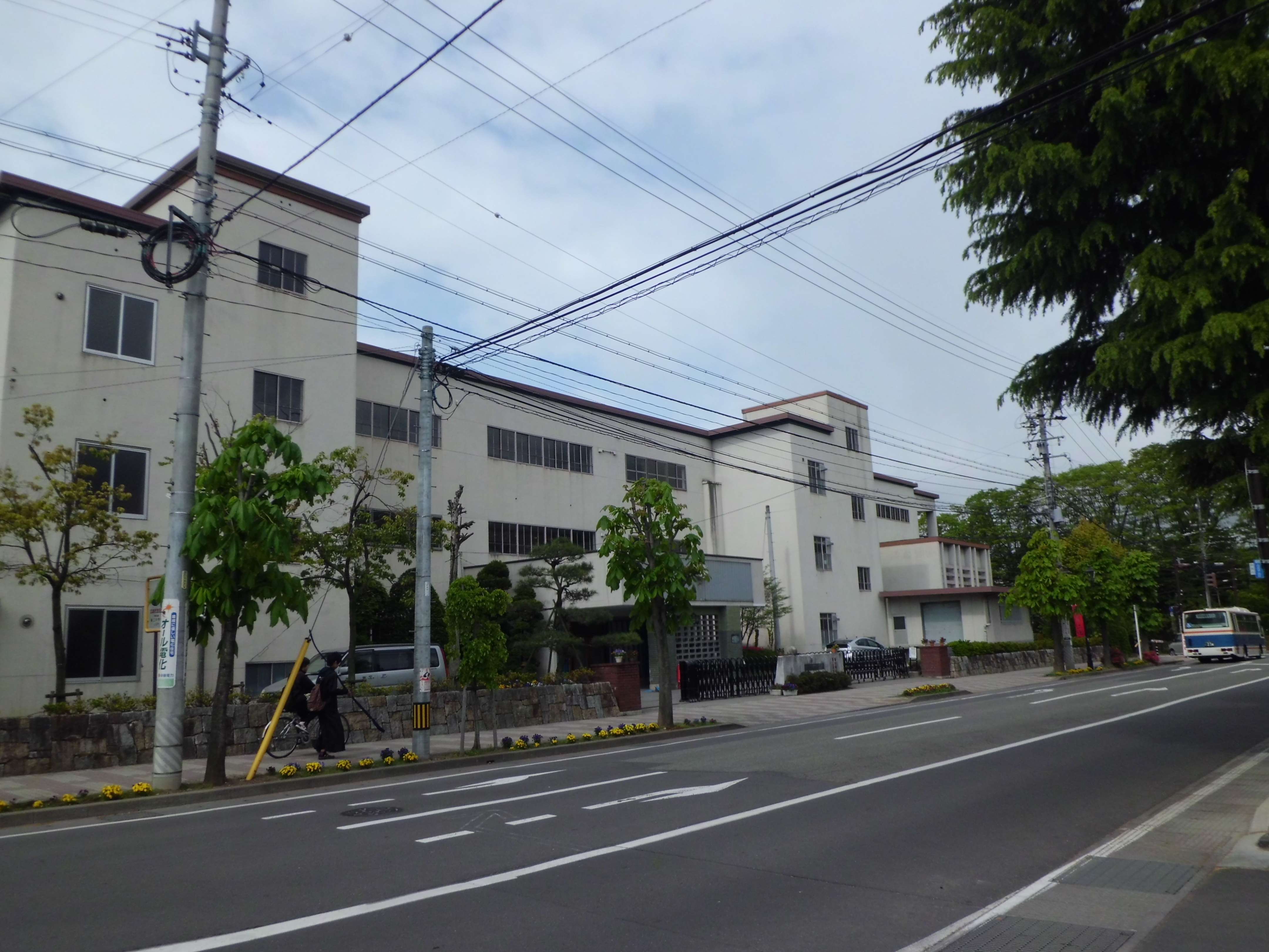 Dai-ni Junior High School in Ueda city, Nagano prefecture, Japan.